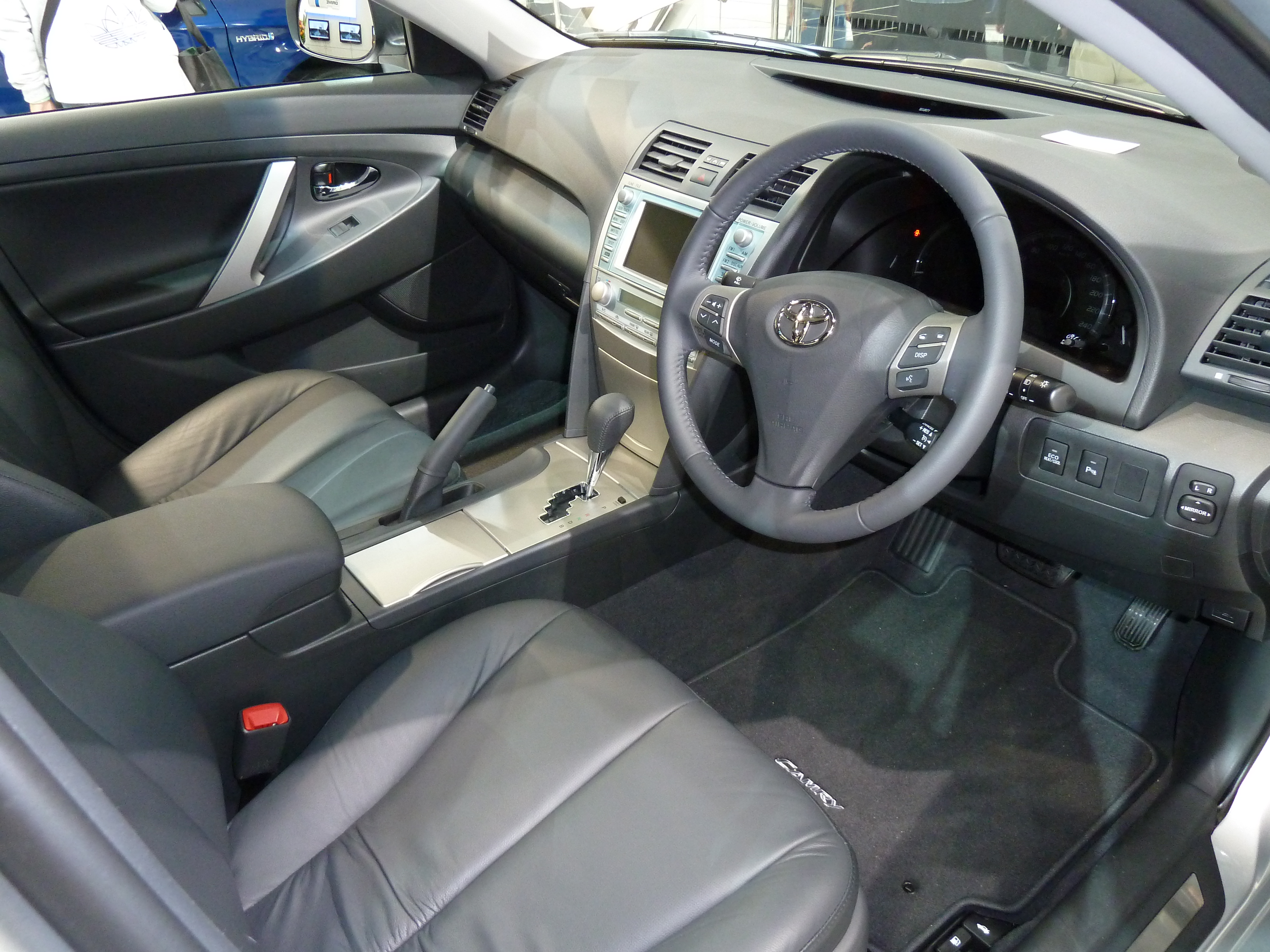 2010 Toyota Hybrid Camry (AHV40R MY10) Luxury sedan. Photographed at the 2010 Australian International Motor Show, Sydney, New South Wales, Australia.